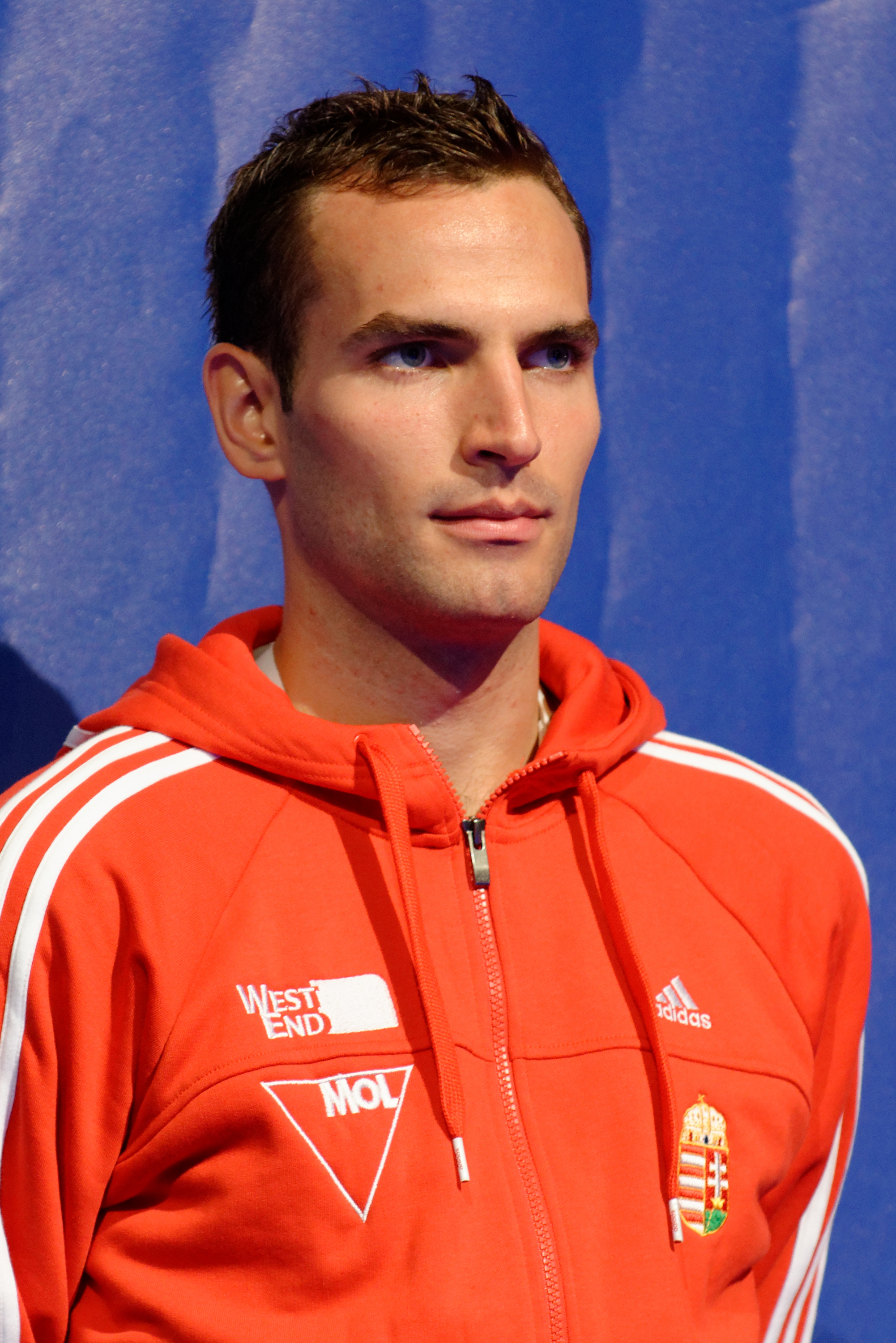 Hungary's Áron Szilágyi stands on the men's sabre podium of the 2013 World Fencing Championships 2013 at Syma Hall in Budapest, 10 August 2013.